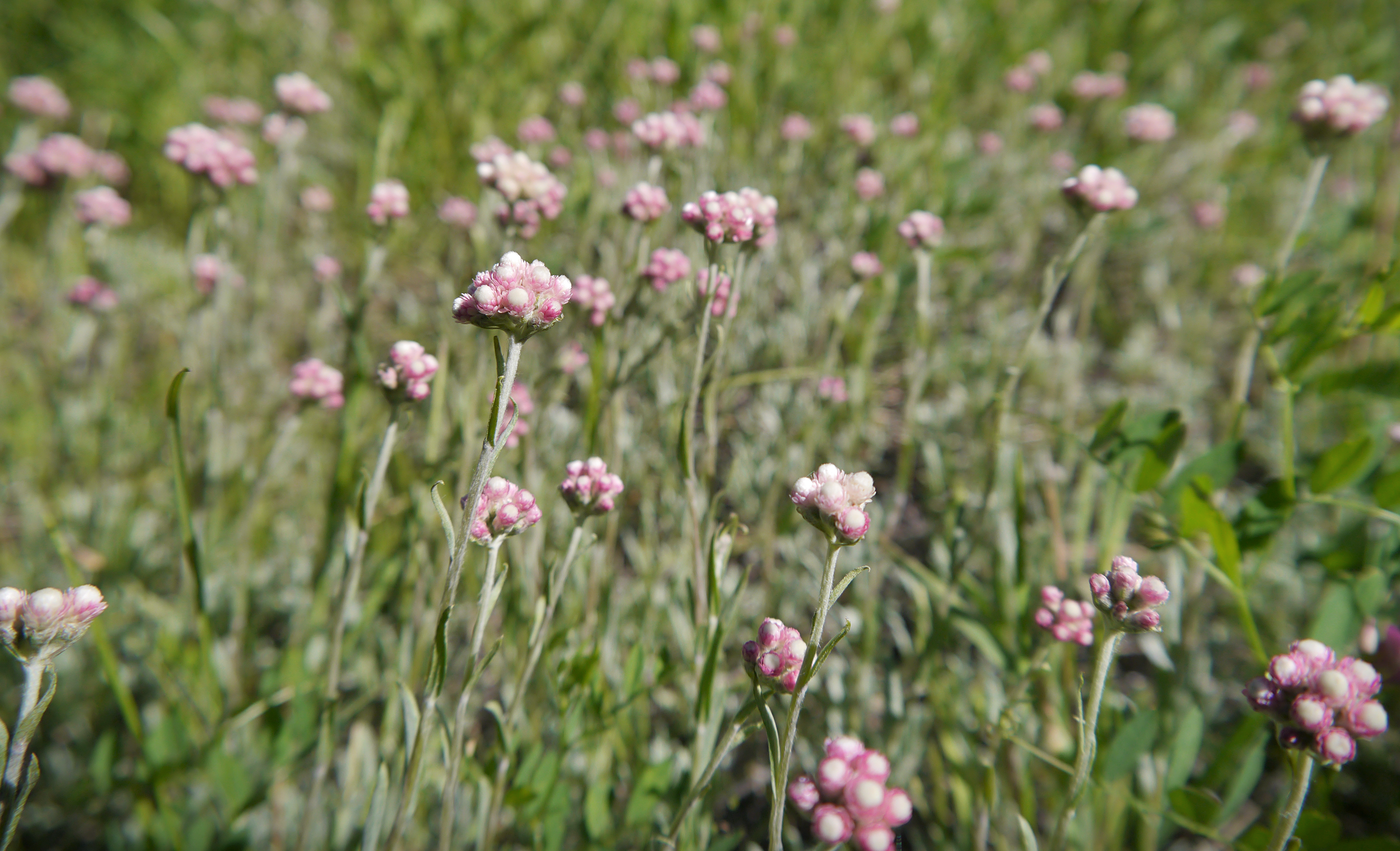 Antennaria rosea near Squilchuck State Park Chelan County Washington